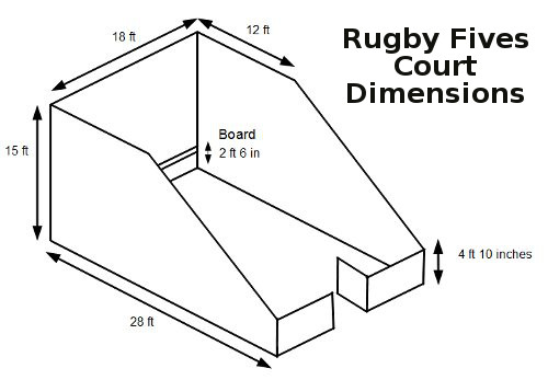 The dimensions of a rugby fives court including the lower back wall.